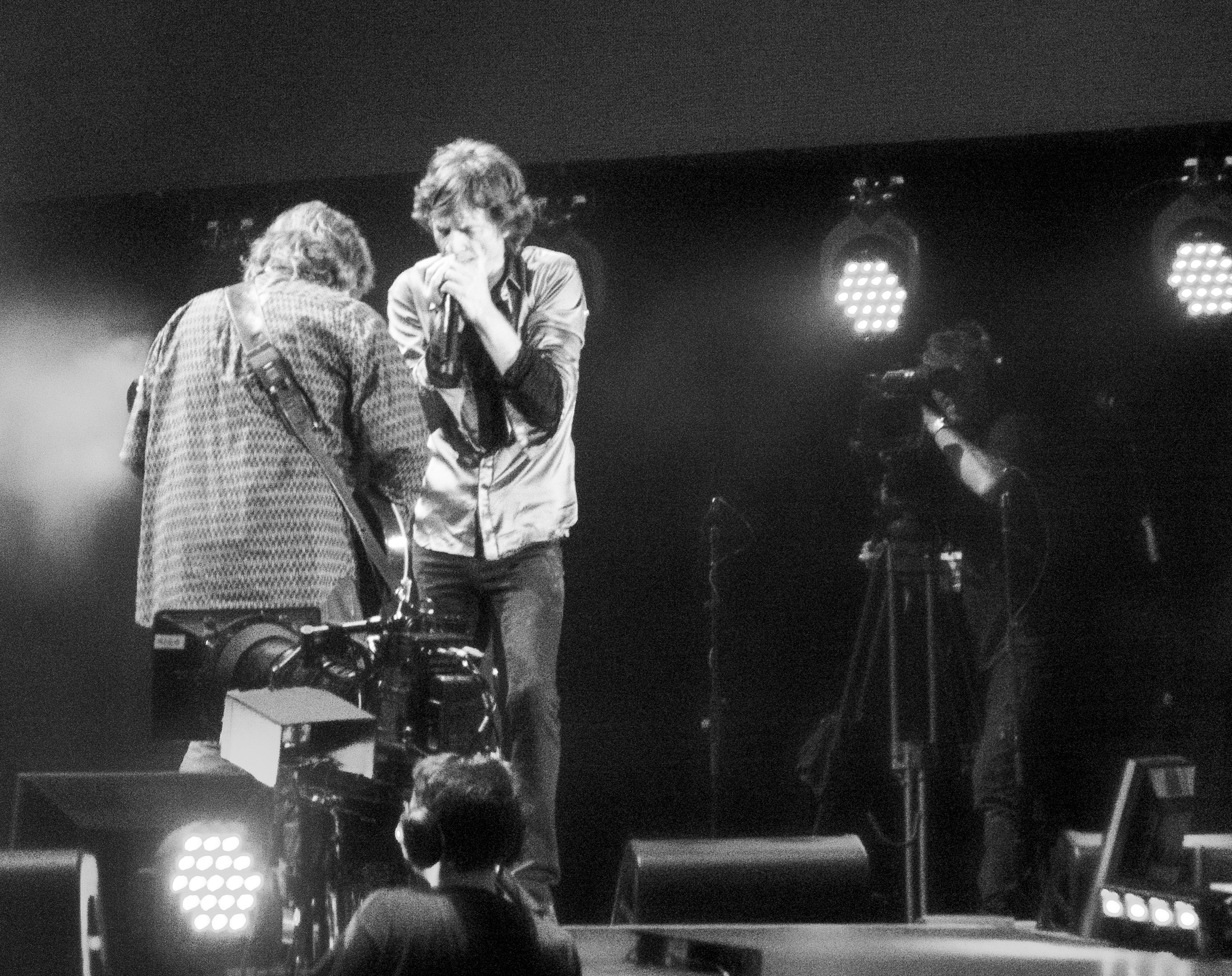 Mick Jagger (right, playing harmonica) and guitarist Mick Taylor during a Rolling Stones concert at British Summer Time Festival in Hyde Park. The performance is being professionally filmed.